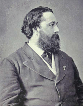 Thomas Sterry Hunt Source: The Canadian album : men of Canada; or, Success by example, in religion, patriotism, business, law, medicine, education and agriculture; containing portraits of some of Canada's chief business men, statesmen, farmers, men of the learned professions, and others; also, an authentic sketch of their lives; object lessons for the present generation and examples to posterity (Volume 4) (1891-1896) Creator:Cochrane, William, 1831-1898 Creator:Hopkins, J. Castell (John Castell), 1864-1923 Publisher:Brantford, Ont. : Bradley, Garretson & Co. Date:1891-1896